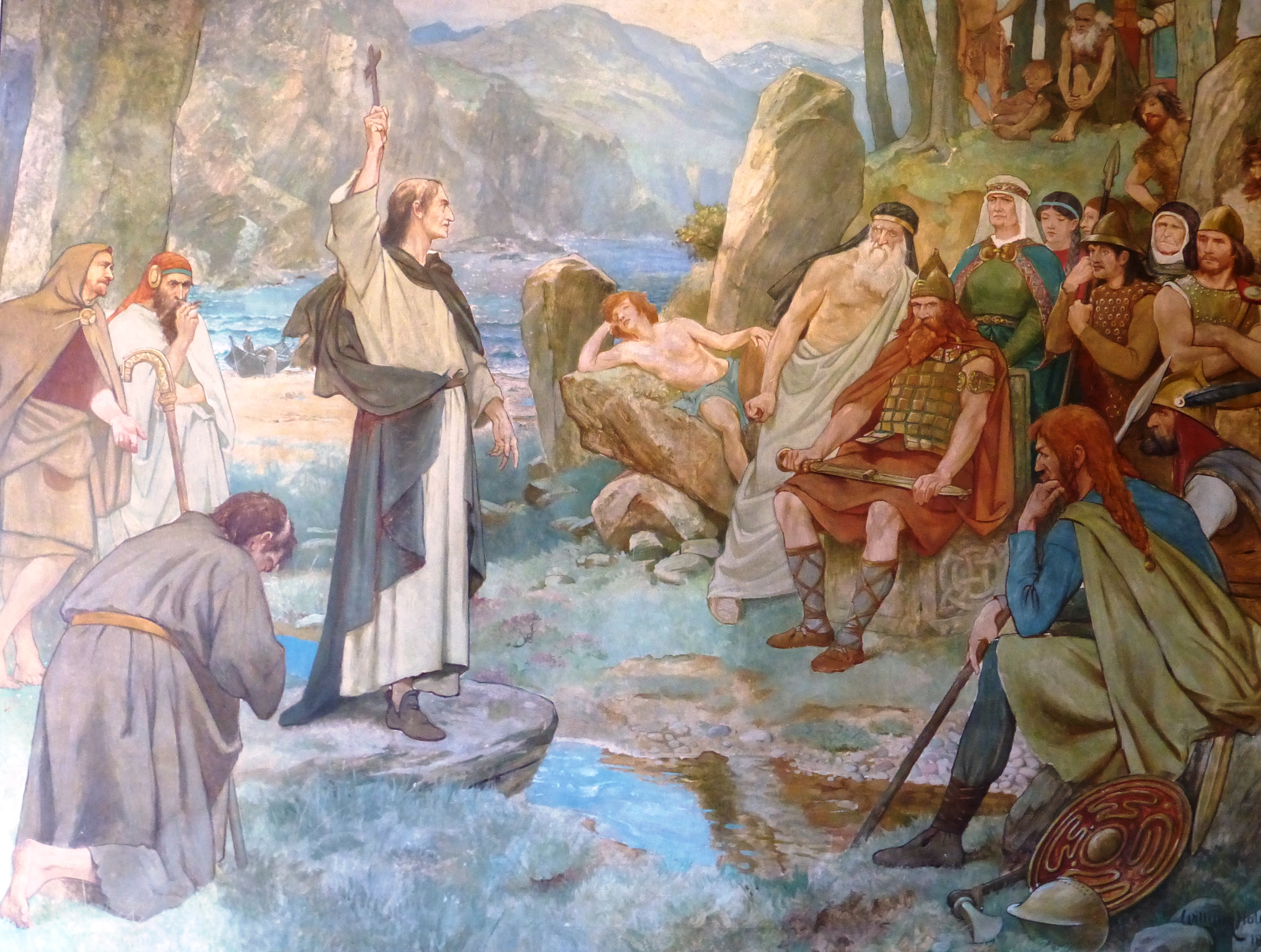 Saint Columba converting King Brude of the Picts to Christianity